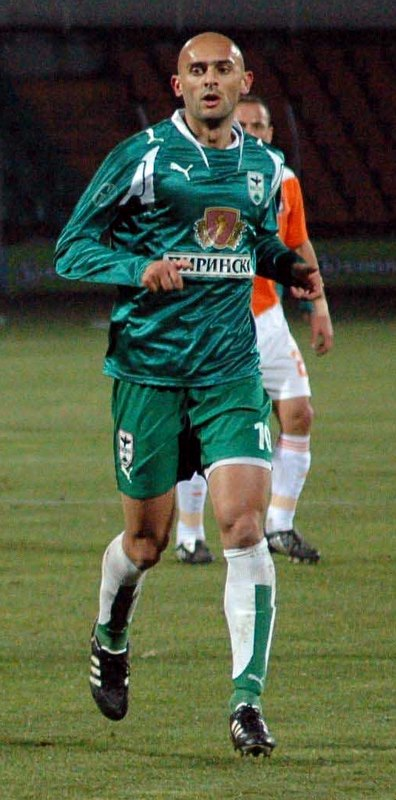 Todor Palankov